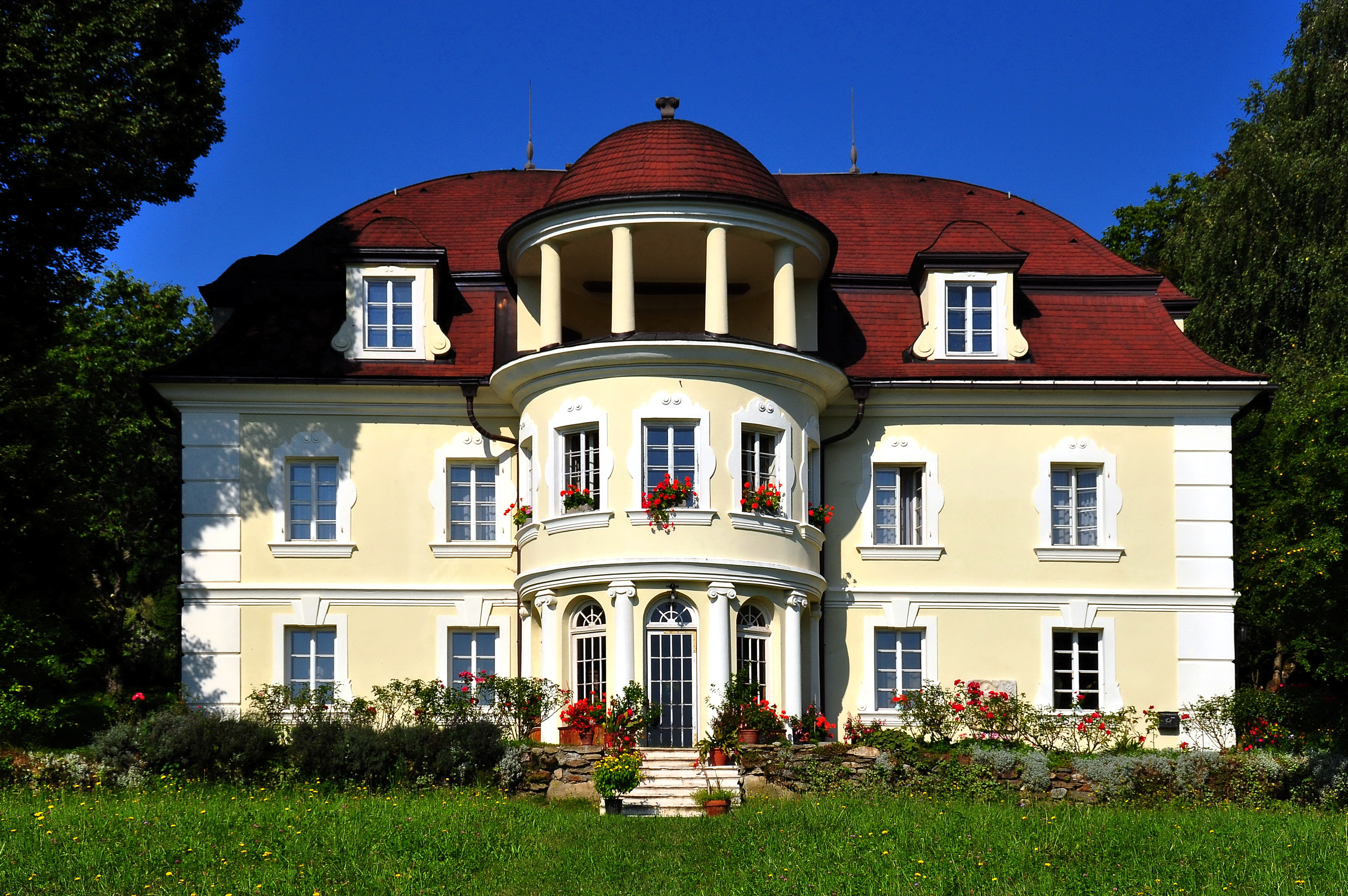 Castle in Lind, market town Maria Saal, district Klagenfurt Land, Carinthia, Austria, EU